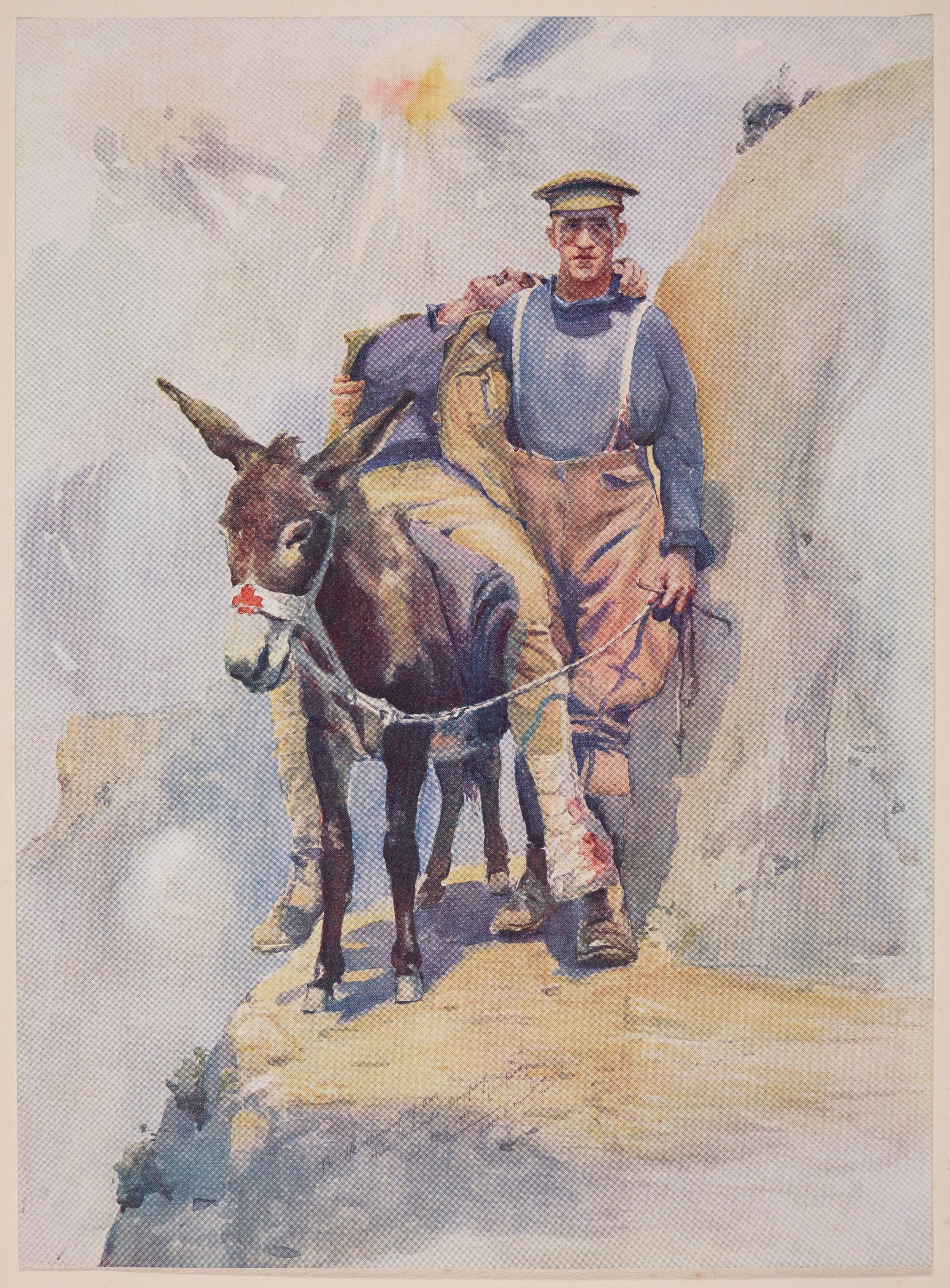 A 1918 watercolour painting titled To the memory of our hero comrade 'Murphy' (Simpson) killed May 1915. Heroes of the Red Cross. Private Simpson, D.C.M., & his donkey at Anzac, depicting a medic and his donkey helping an injured man back to base at Gallipoli. Despite the title, this was actually based on a photo of the medic Lt. Richard Henderson (1895-1958), who took up the role after Simpson was killed.[1] Printed in England and published by W. J. Bryce, 24a Regent Street, London, S.W. 1. 1918.